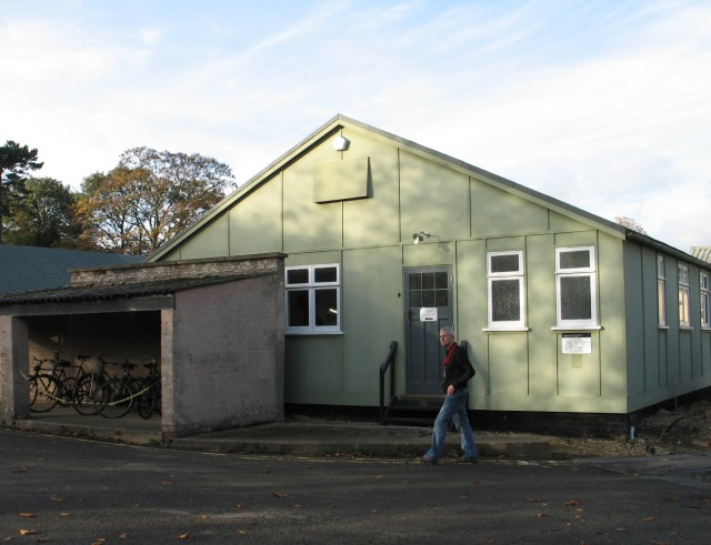 "Hut 8", Bletchley Park. Originally the home of the financier and Liberal MP, Sir Herbert Samuel Leon (1850-1926), the Bletchley Park estate passed out of the Leon family in 1937. During World War II the estate became the site of the UK's main decryption effort, becoming known as Station X. It was here that the codes and ciphers of several Axis countries were decrypted, most important being the ciphers generated by the German Enigma and Lorenz machines. Some 9,000 people were working at Bletchley Park at the height of the code-breaking efforts, many of the teams being housed in temporary huts designated by numbers - Hut 8, shown here, housed the Bletchley Park team tasked with breaking into German naval wireless traffic encrypted using the Enigma machine. See also. . . . 1592868; 1592873; 1592906; 1592914; 1592920; 1593071